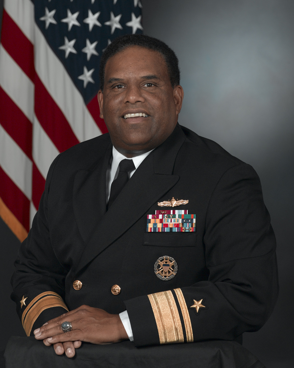 Rear Admiral Victor G. Guillory - Official U.S. Navy photograph